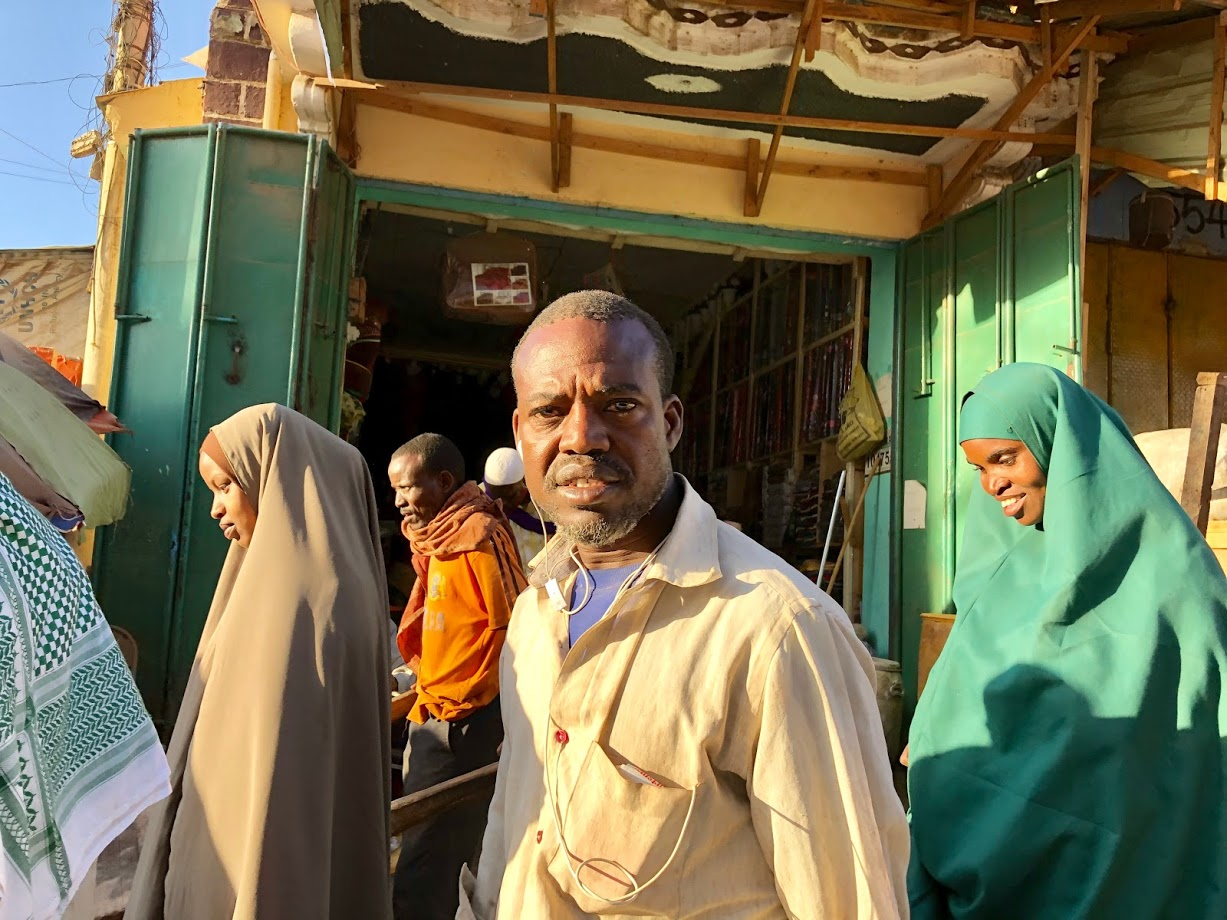 This is an image with the theme "Play" from: Somalia